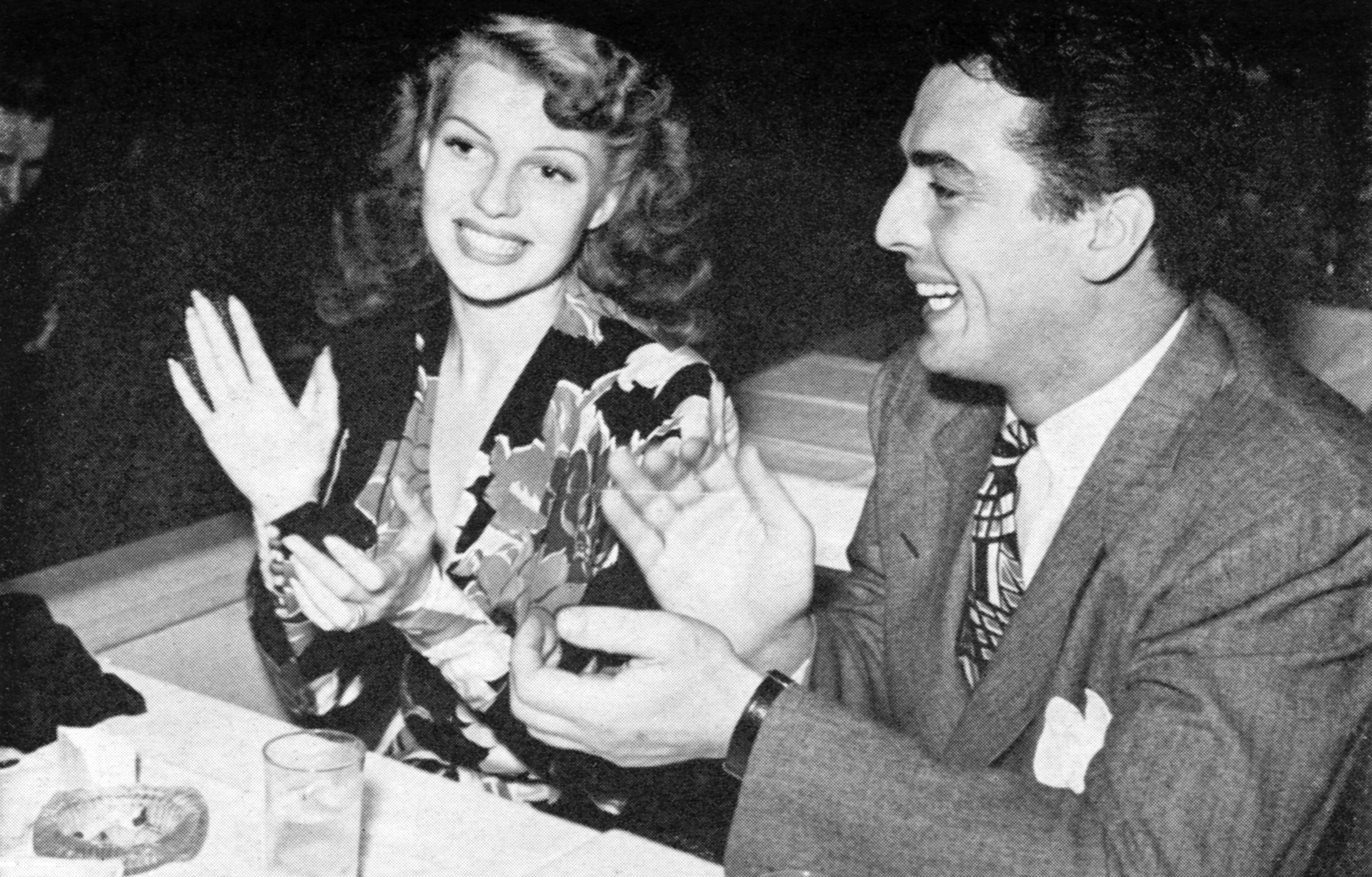 Photograph of Rita Hayworth and Victor Mature at the Palladium